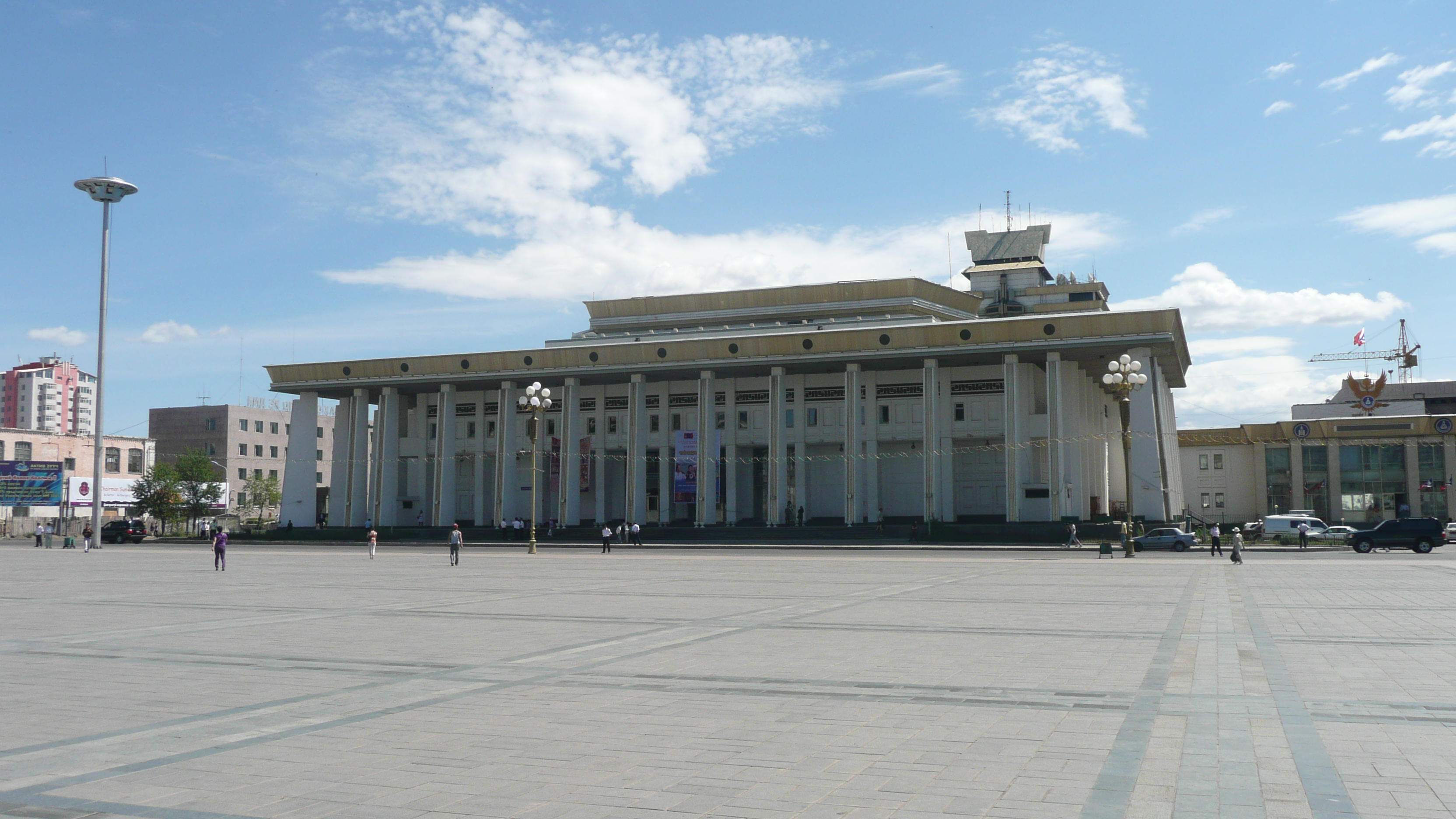 Sükhbaatar Square in Ulan Bator